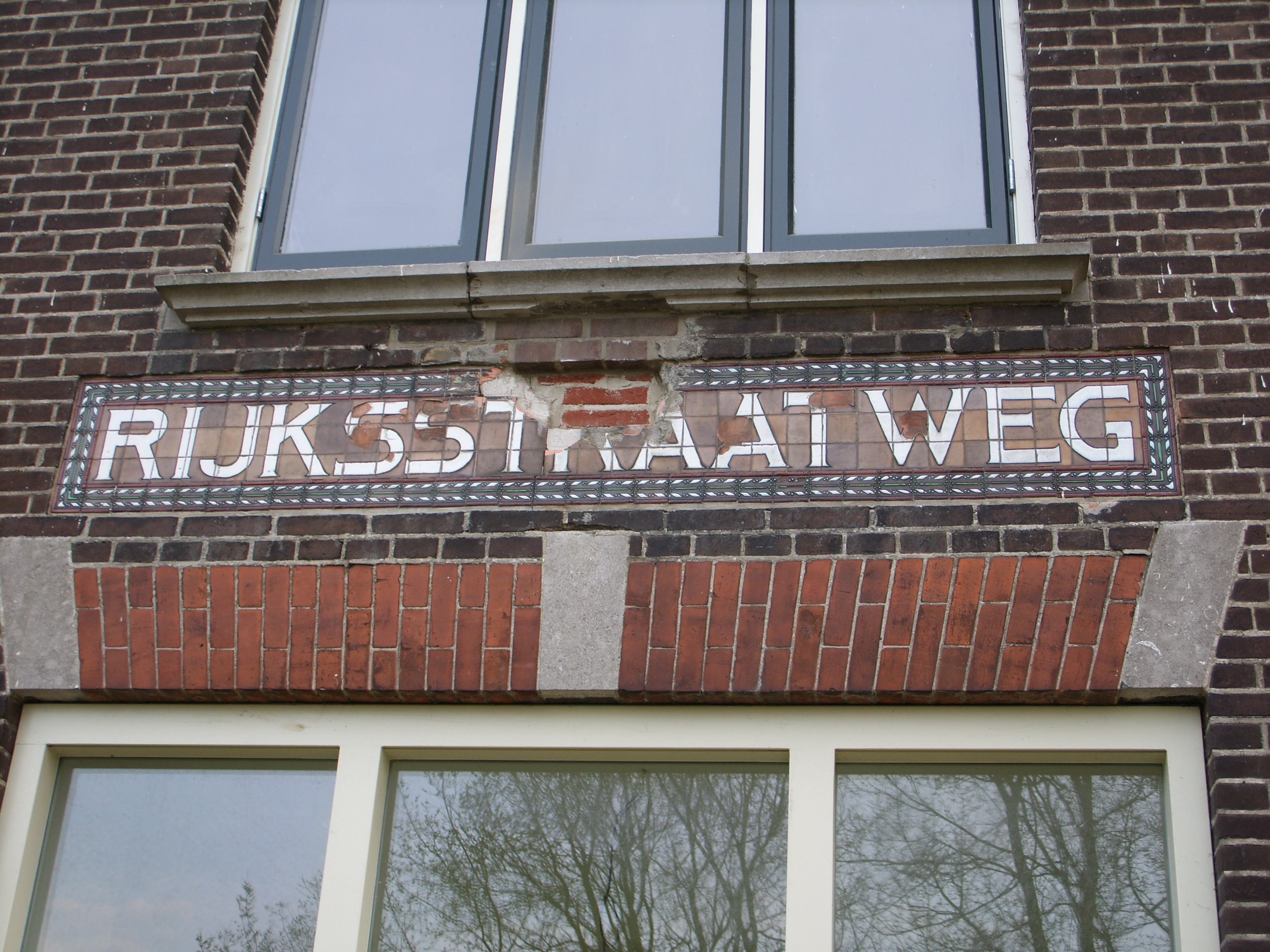 former halte Haarlem Rijksstraatweg, Netherlands